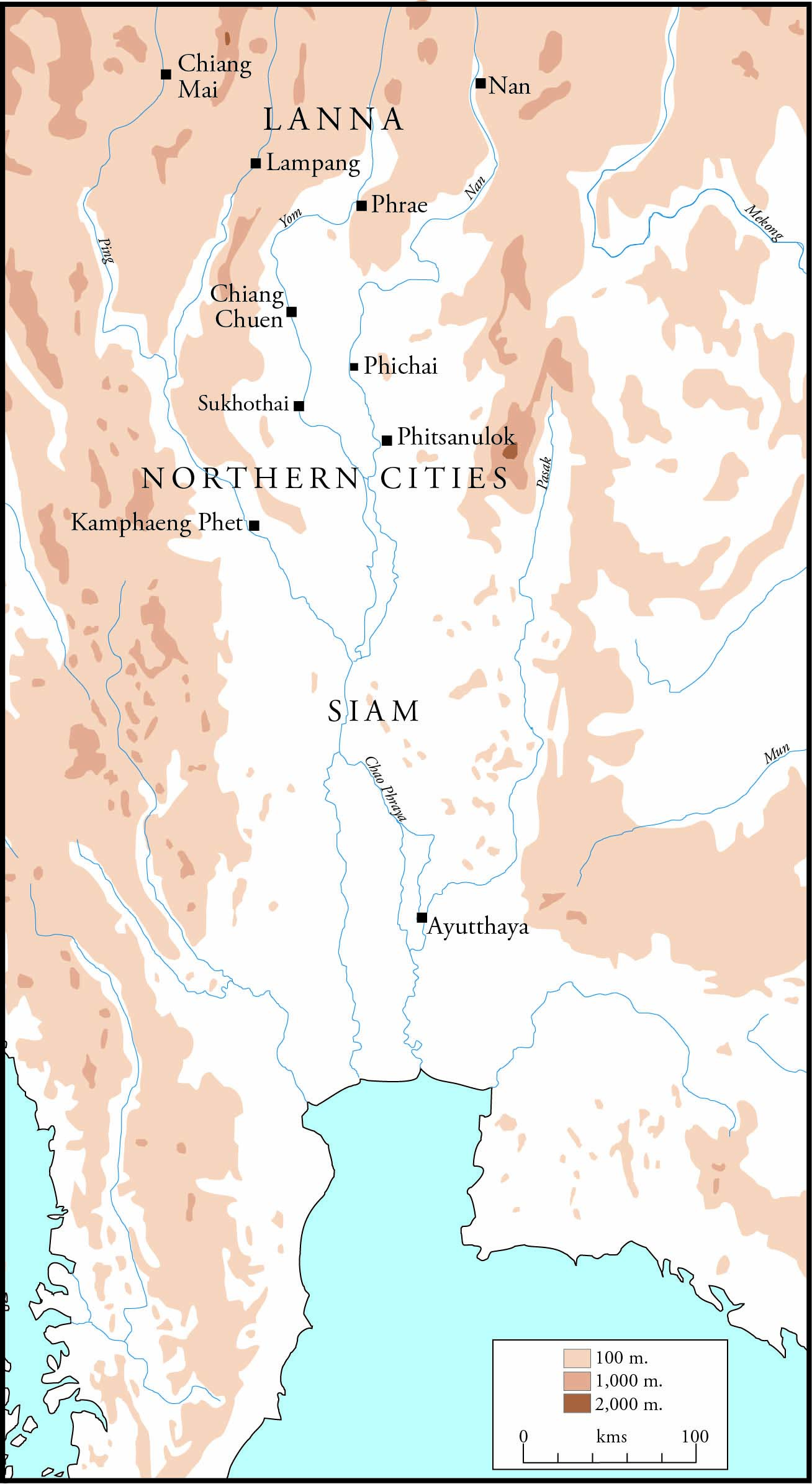 Author created map